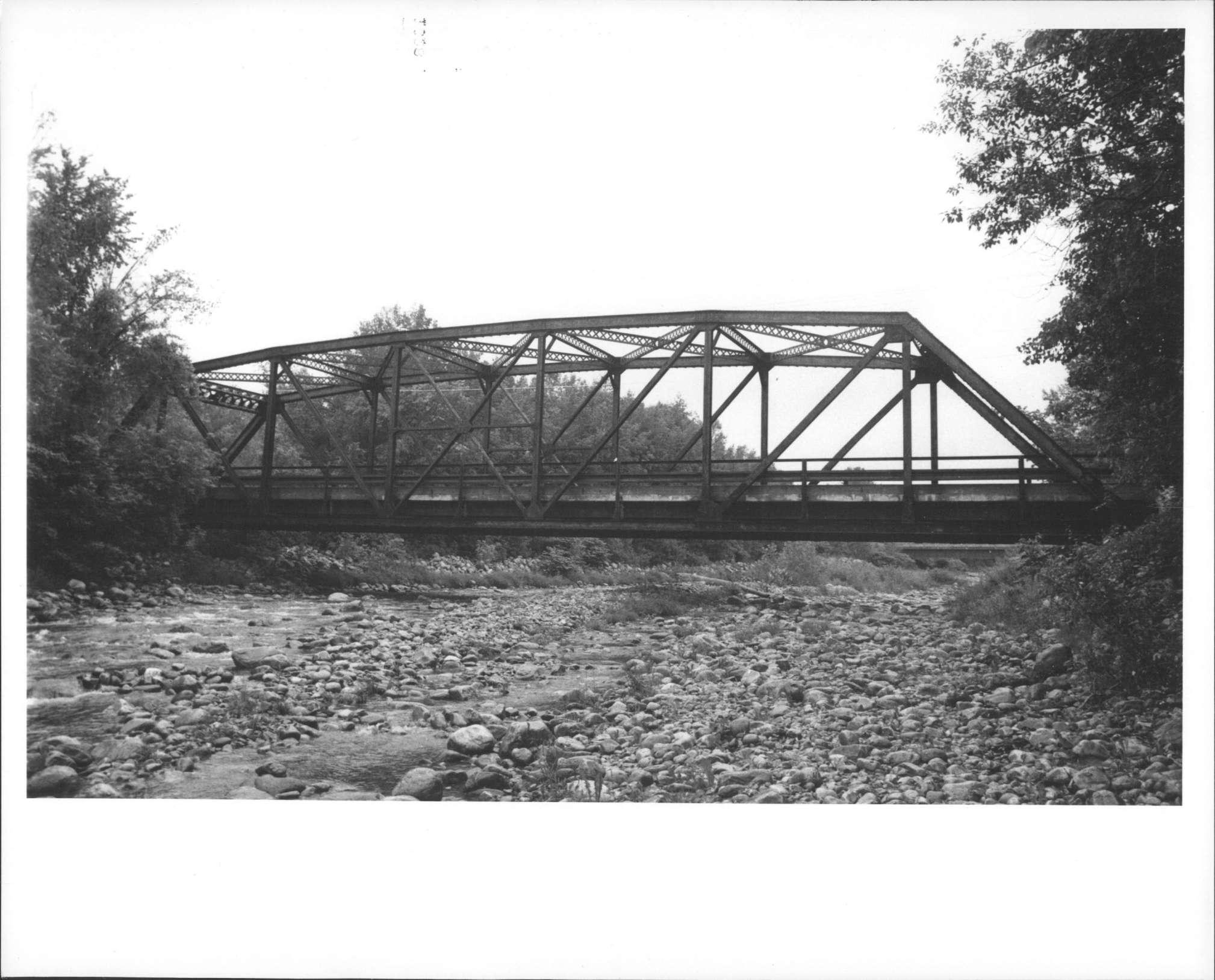 The Cold River Bridge, Vermont 7B, Clarendon, Vermont. This bridge has been demolished.